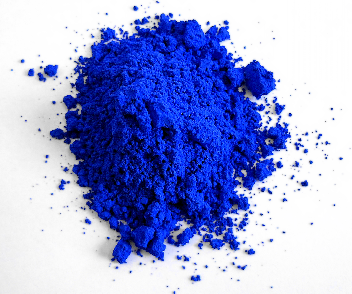 Photograph of YInMn Blue as synthesized in the laboratory.